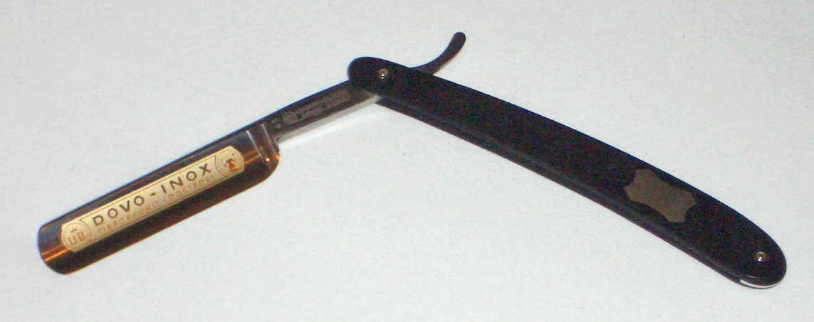 Straight razor